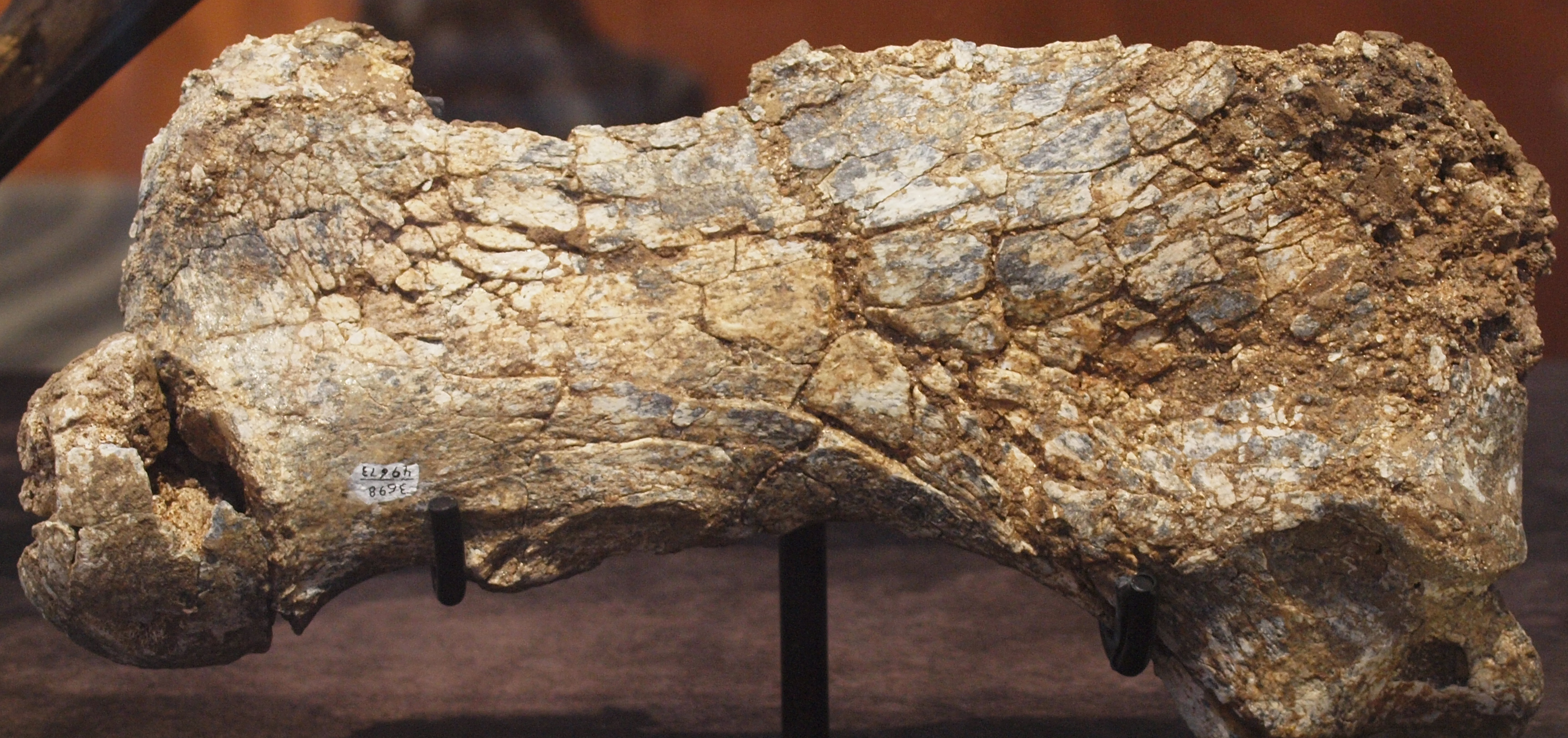 Femur of Shasta's Ground Sloth (Nothrotheriops shastensis) 200,000 - 300,000 years old Pleistocene Epoch, River Terrace Deposit National City, San Diego County SDNHM 49673